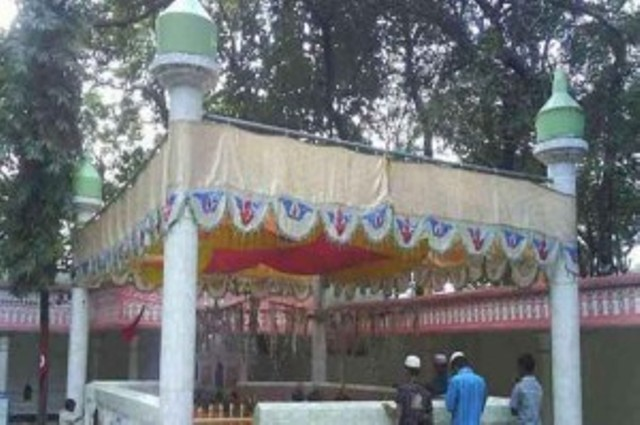 Mazar Sharif of Syed Nasir Uddin, Murarband Darbar Sharif, Chunarughat, Habiganj